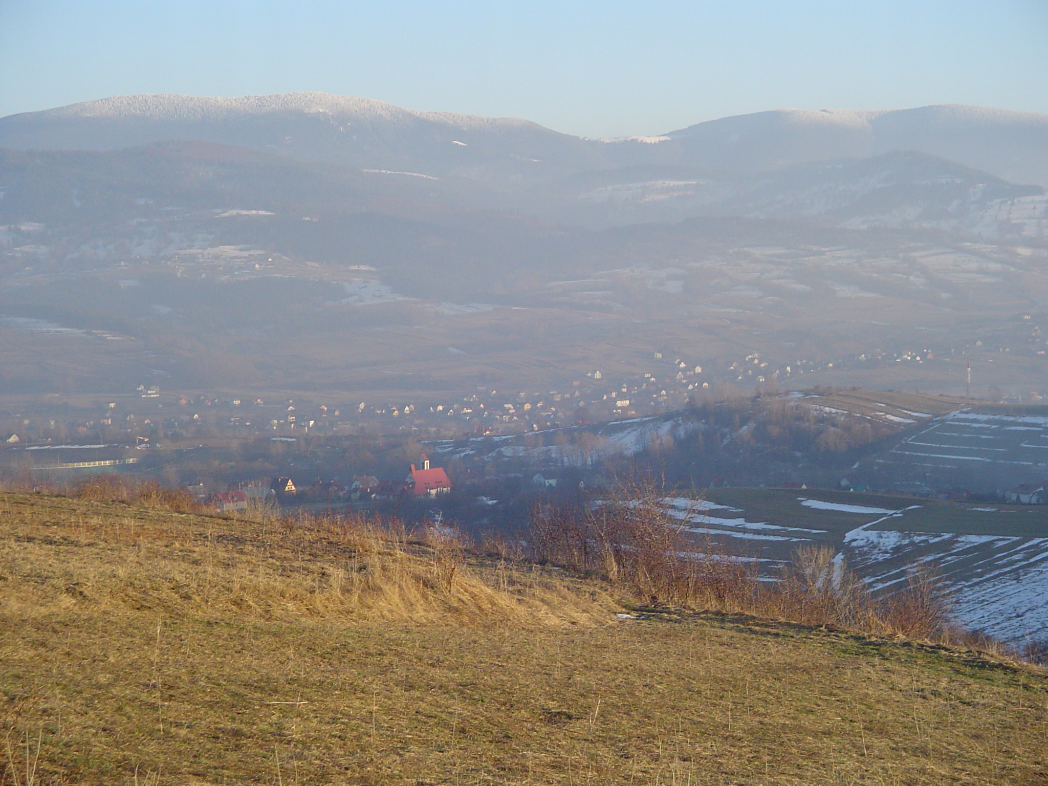 Village Przybędza in Poland (near Żywiec), the picture taken from the mount Matyska